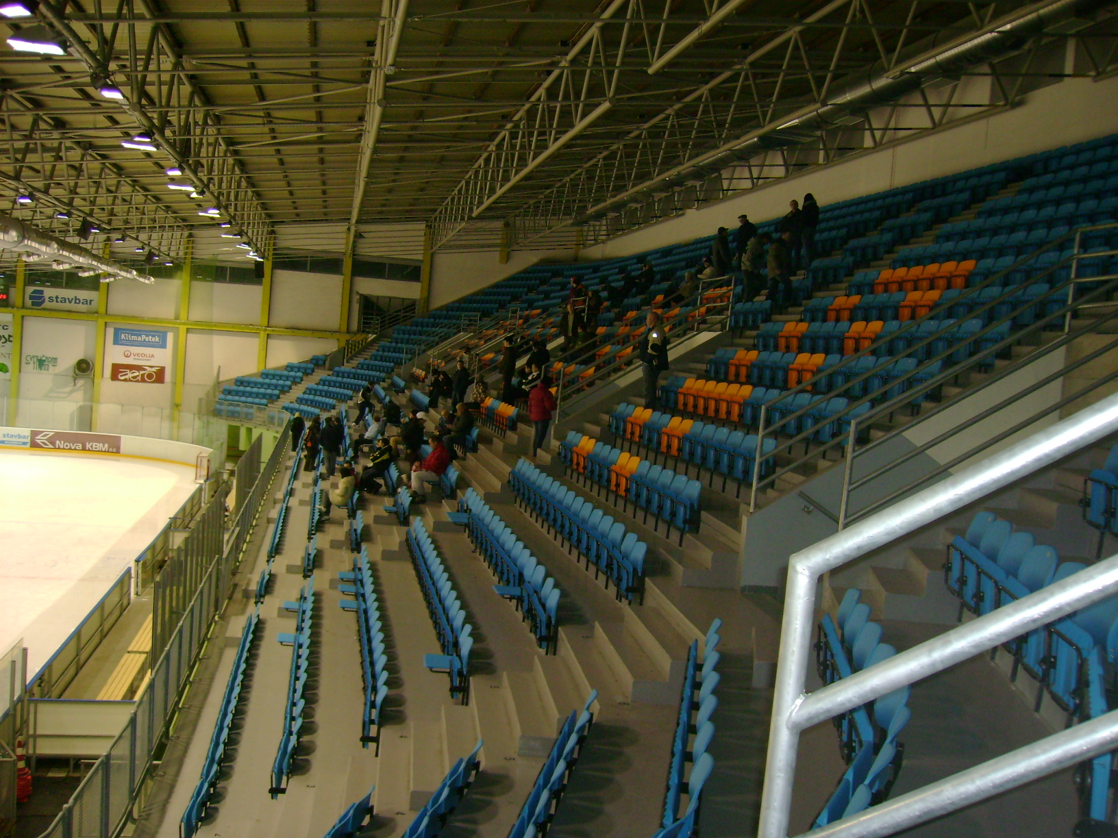 The main stand of the Ledna Dvorana Tabor ice hockey hall in Maribor, Slovenia Other information This pic was taken in February 2008